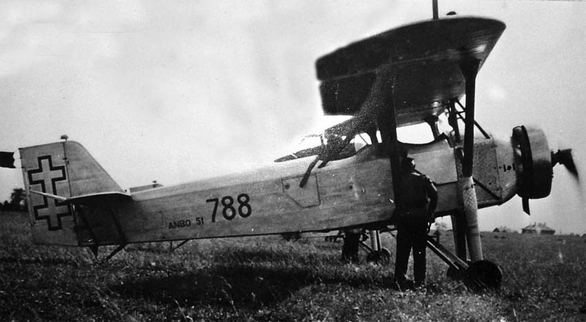 Training flights on ANBO-51.